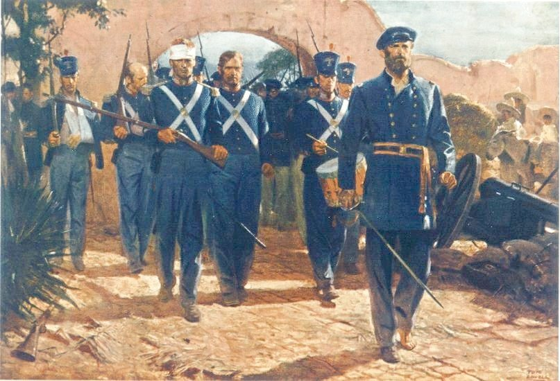 General John A. Quitman and a Battalion of Marines Entering Mexico City, 1847. Signed Tom Lovell (lr) Oil on canvas 33 x 45 inches. Note: Gen.John A. Quitman make a move on Mexico City in Mexican–American War.